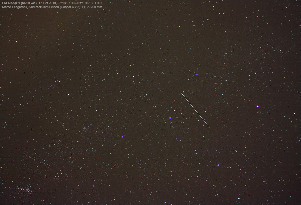 The FIA Radar 1 (2010-046A), probably the first operational payload resulting from the FIA program, crosses Cassiopeia in this 10s exposure made by amateur satellite observer Marco Langbroek on 17 Oct 2010.